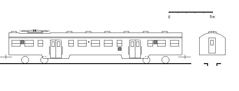 The plan of MCW500 electric railcar for PJKA as Indonesian National Railways.